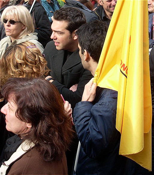 Greek politician Alexis Tsipras (center) among his comrades, during a demonstration against privatization of Pension System.